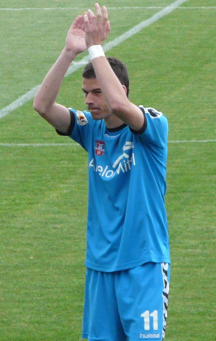 Razvan Ochirosii in May 2010, during Otelul - Vaslui